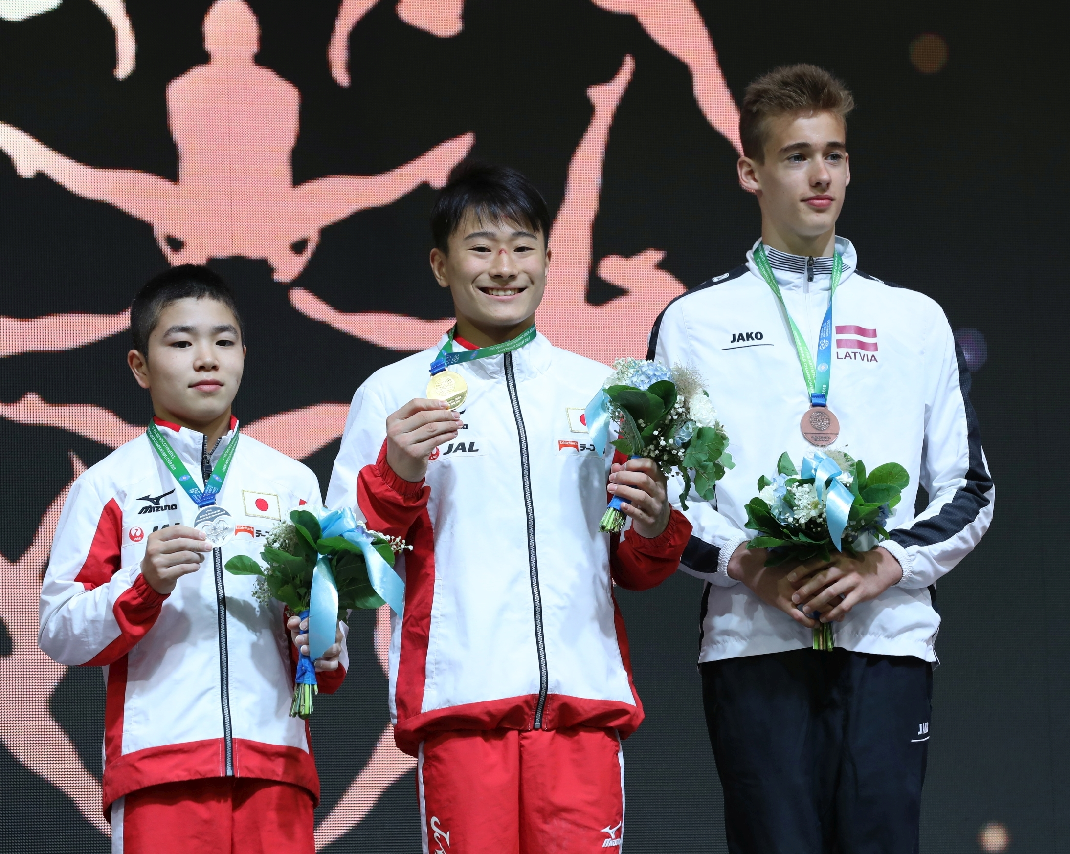 Pommel horse victory ceremony during the boys' apparatus finals at the 1st FIG Artistic Gymnastics Junior World Championships on 29 June 2019 in Győr, Hungary. Depicted: Edvins Rodevics. Shinnosuke Oka. Takeru Kitazono.